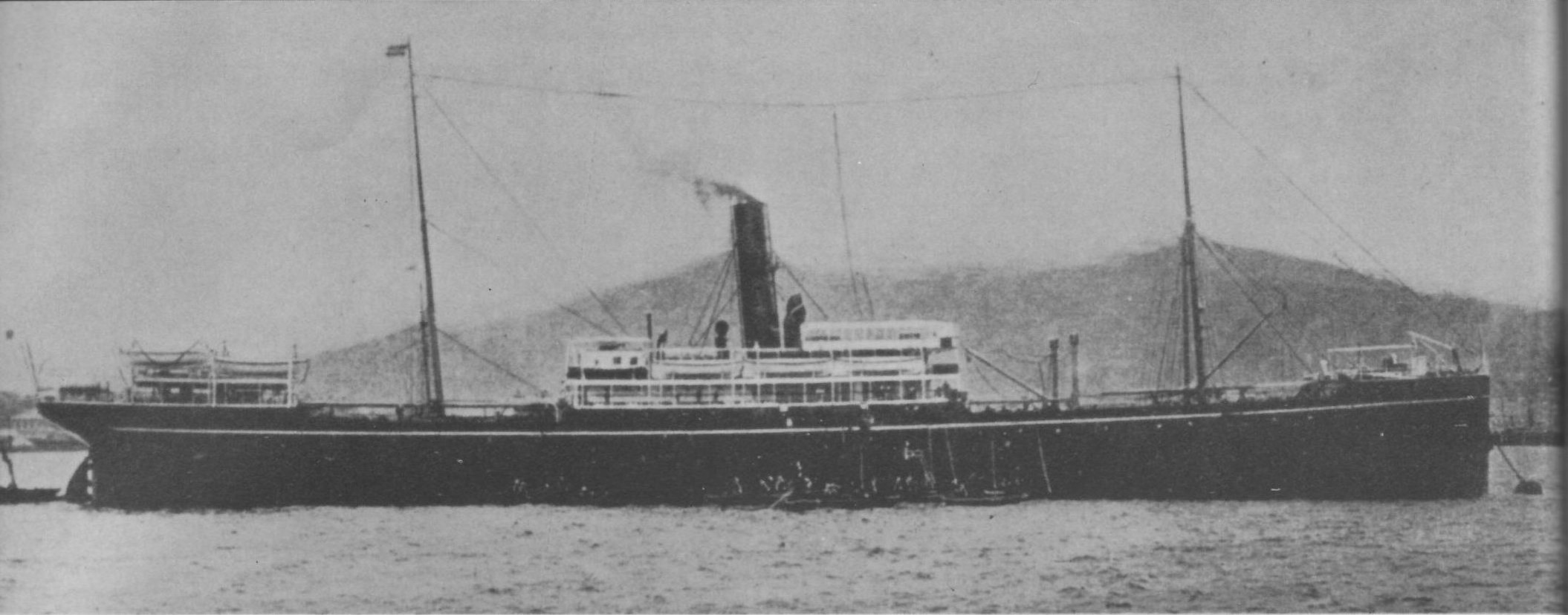 NYK Line "Hitachi Maru"(1906).